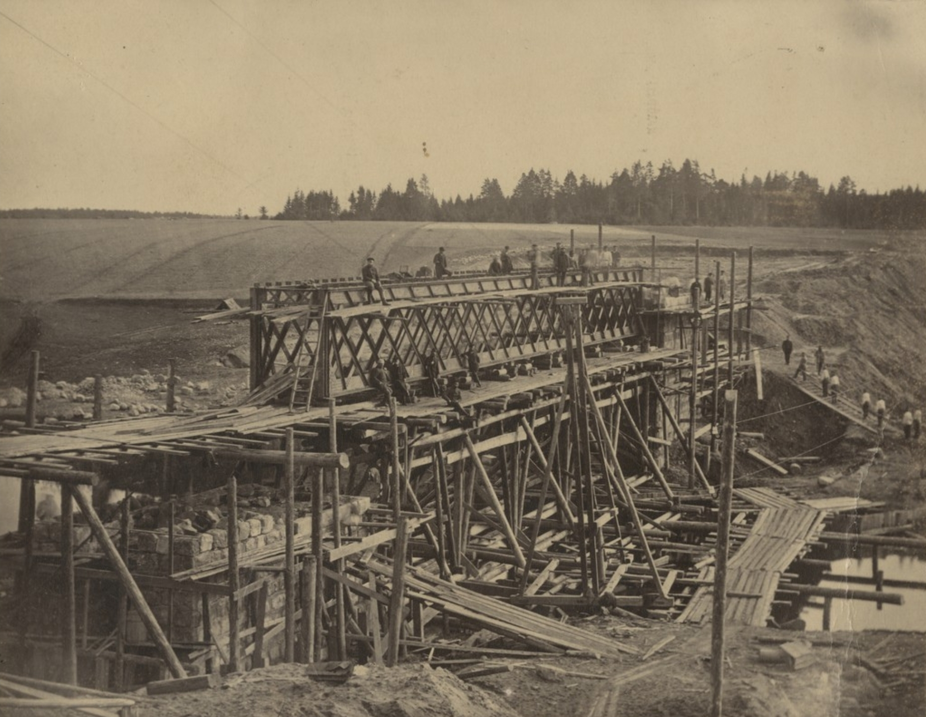 Railway bridge over the Väike Emajõgi River during construction